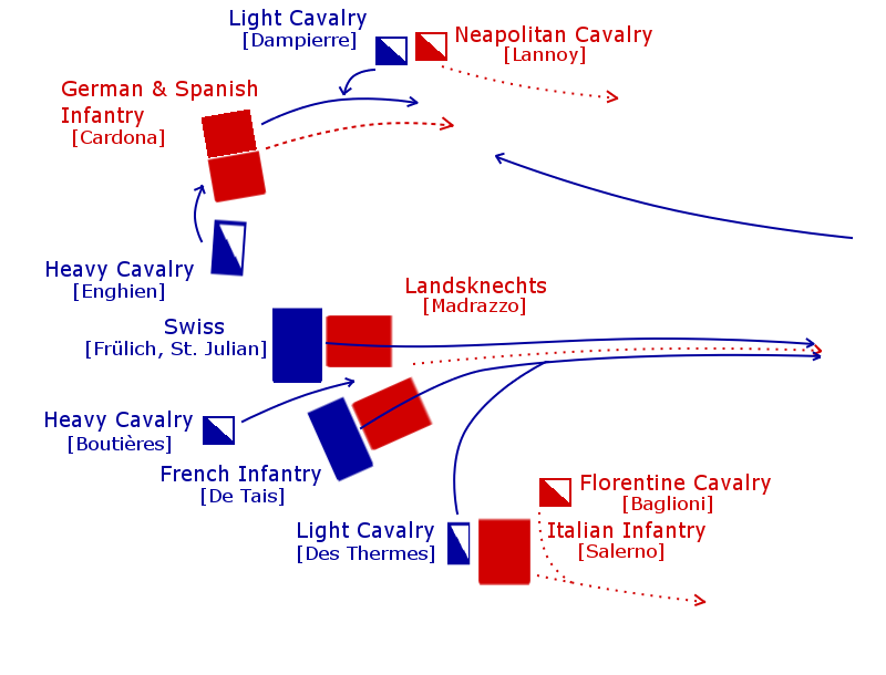 End of the Battle of Ceresole; French troops in blue, Imperial troops in red.